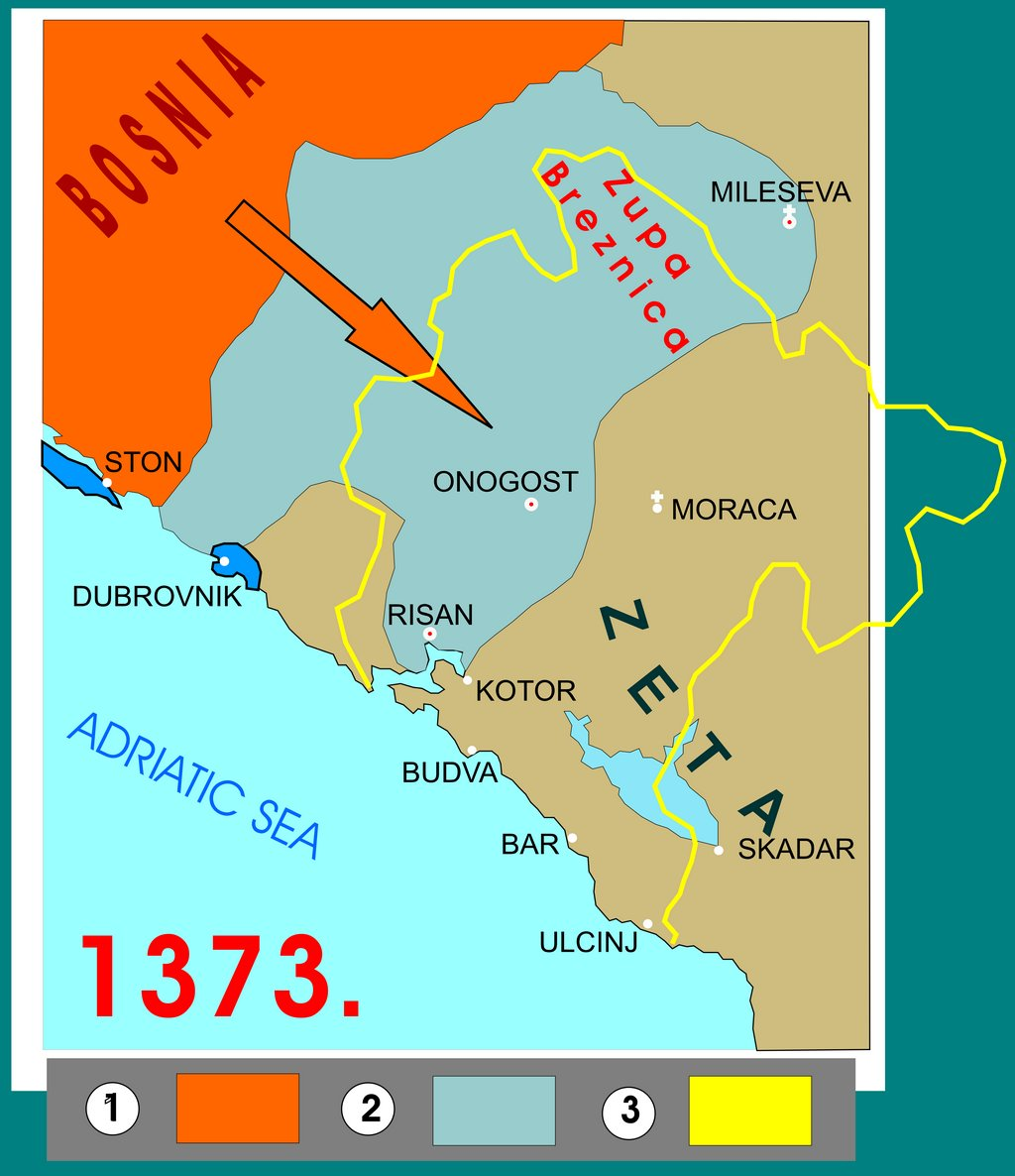 1373rd , after the defeat of aristocratic Nicholas Altomanovic, occupy part of his estate ban of Bosnia Tvrtko Kotromanic. 1. Bosnian state; 2. Part of the property Altomanovic Nicholas (Vojinovic) annexed Bosnia, 3. Present-day border of Montenegro.